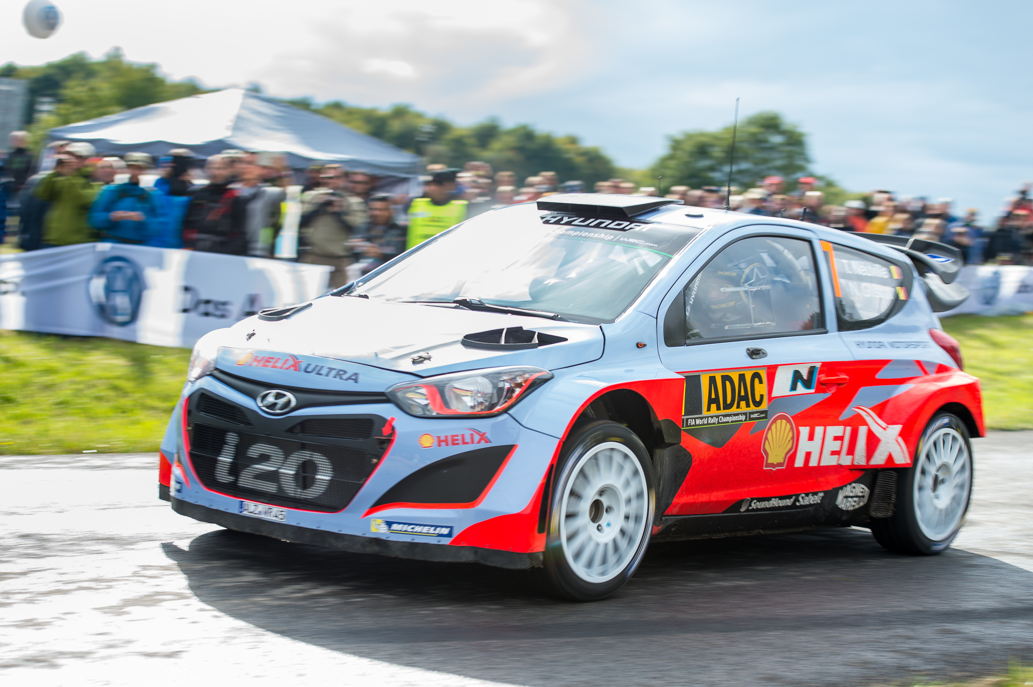 ADAC Rallye Deutschland 2014,FIA,FIA World Rally Championship,Hyundai Motorsport,Hyundai i20 WRC,Motorsport,Nicolas Gilsoul,Panzerplatte,Rally,Rallye,SS14,Thierry Neuville,WP14,WRC